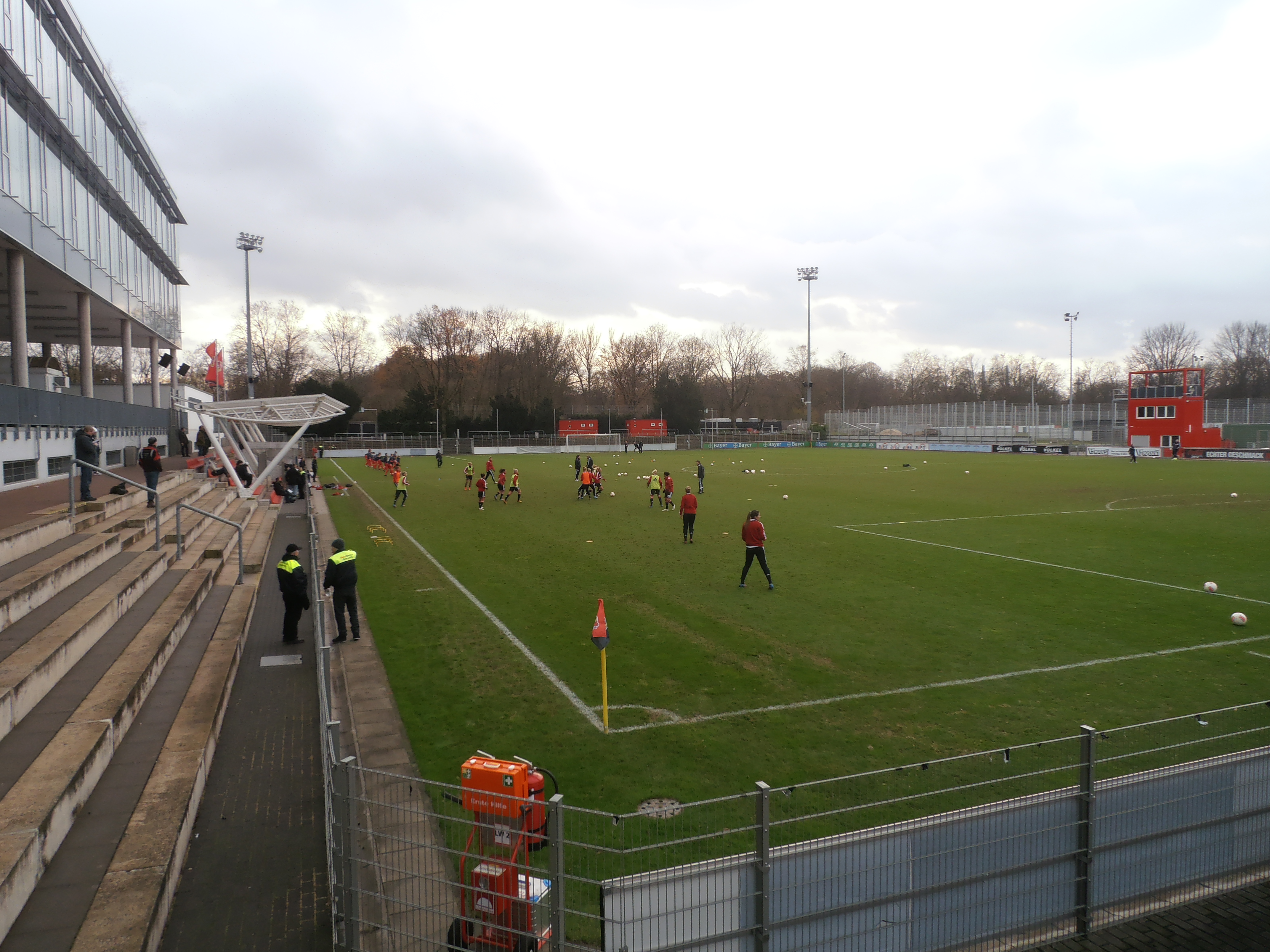 Ulrich-Haberland-Stadion before Frauen-Bundesliga match between Bayer Leverkusen and VfL Sindelfingen